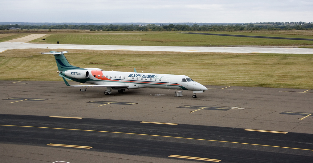 Plane leaving from Stillwater Regional Airport